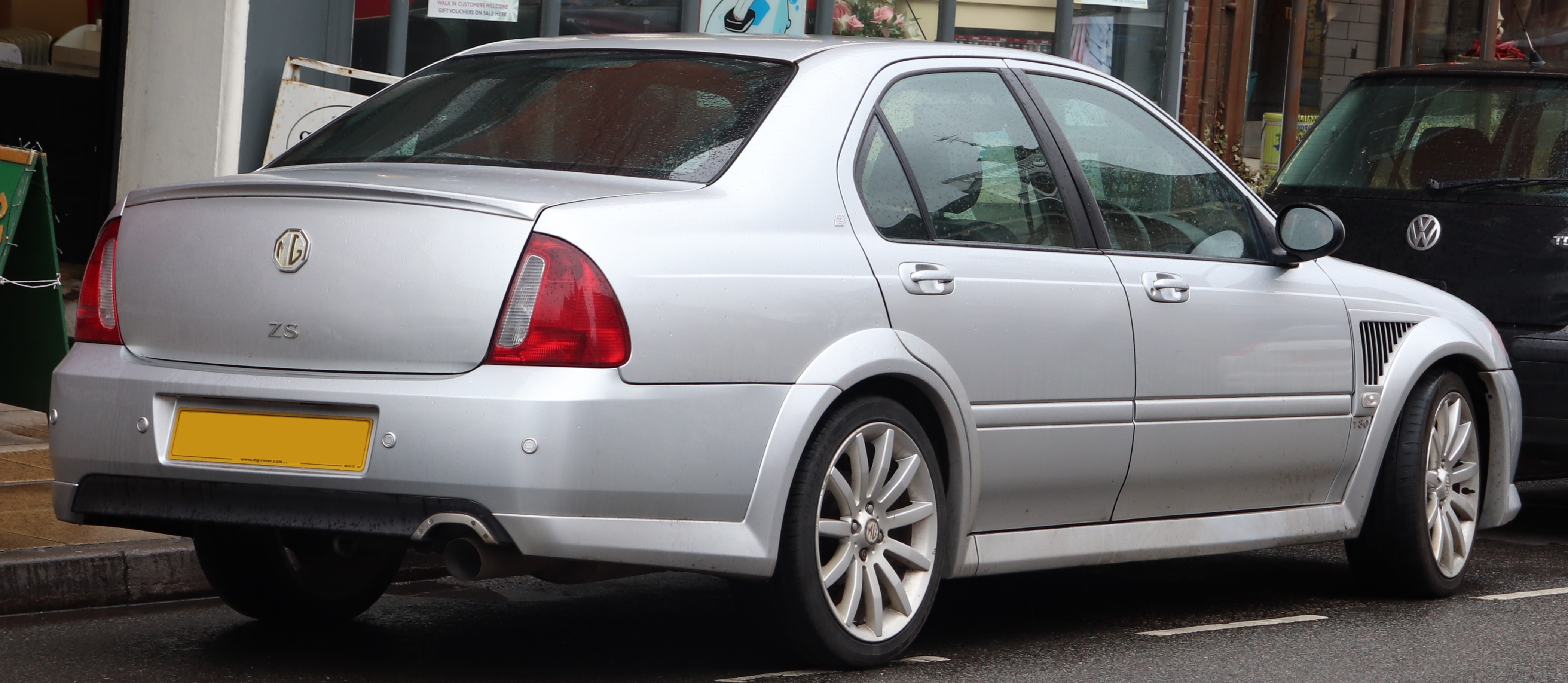 2004 MG ZS 2.5 Rear Taken in Warwick